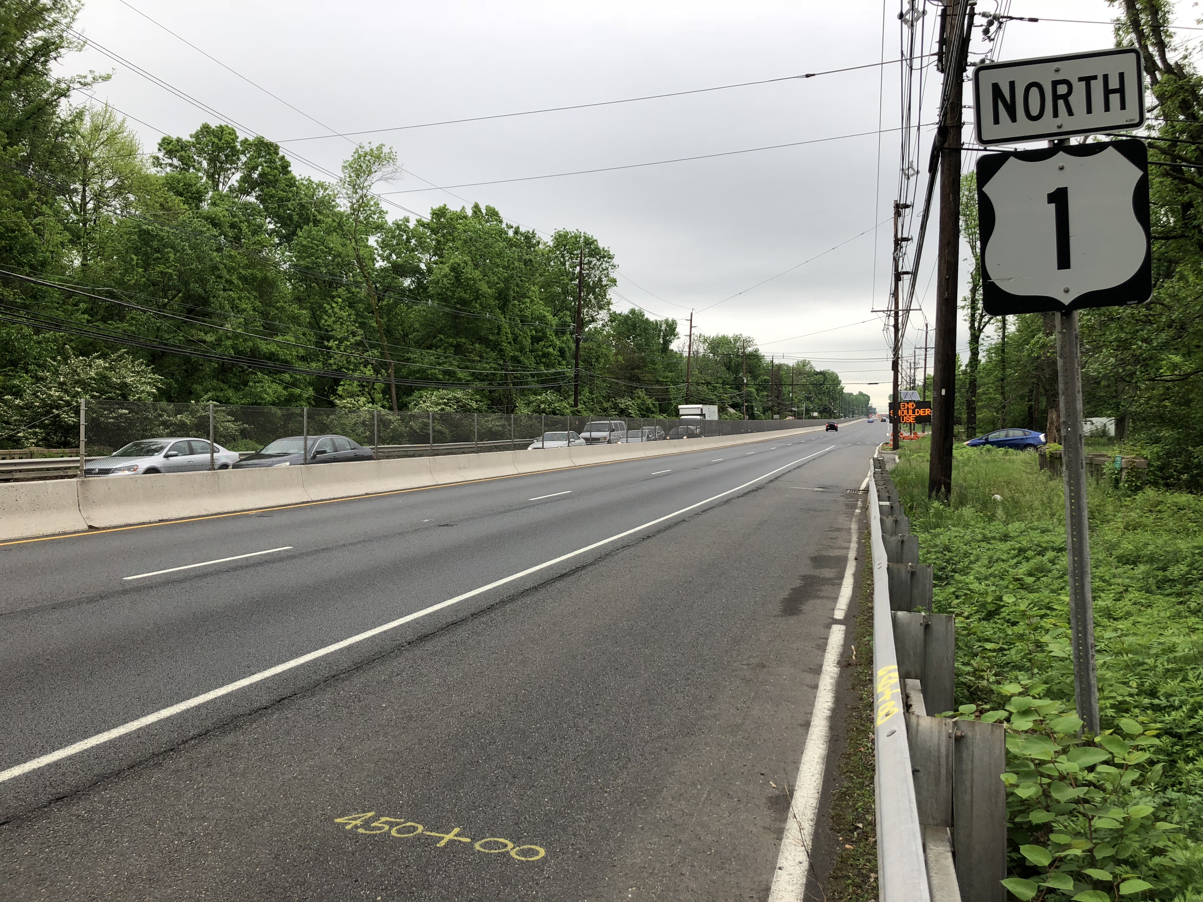 View north along U.S. Route 1 just north of Raymond Road in South Brunswick Township, Middlesex County, New Jersey